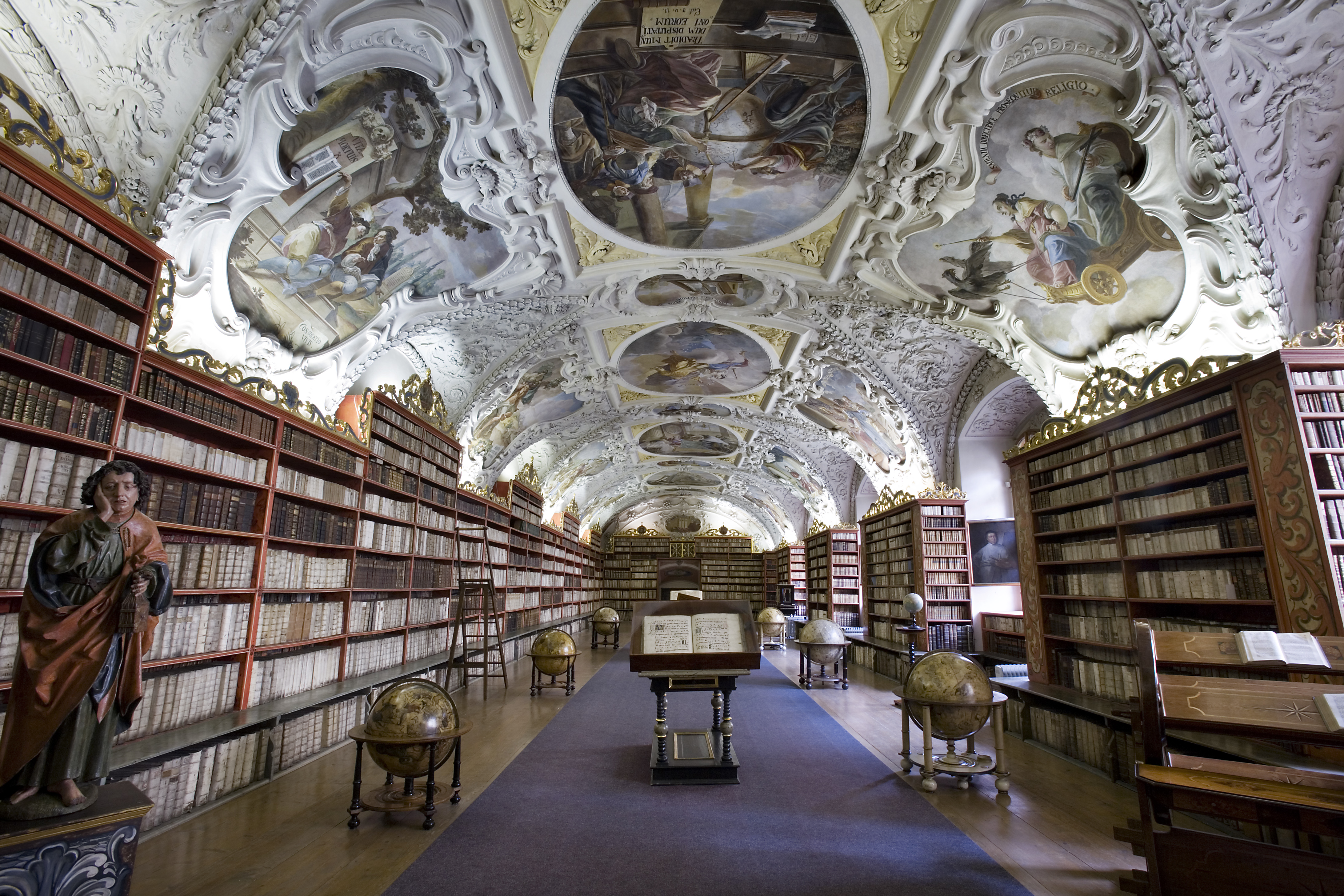 Strahov Theological Hall - Original Baroque Cabinets, Prague